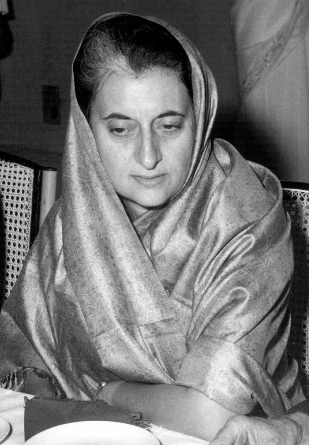 Cropped from Defense Department, US government . Indira Gandhi and Dr. Seaborg (cropped out).